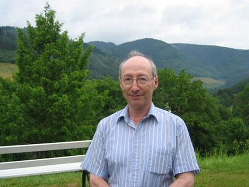 Paul Rabinowitz, Oberwolfach 2005